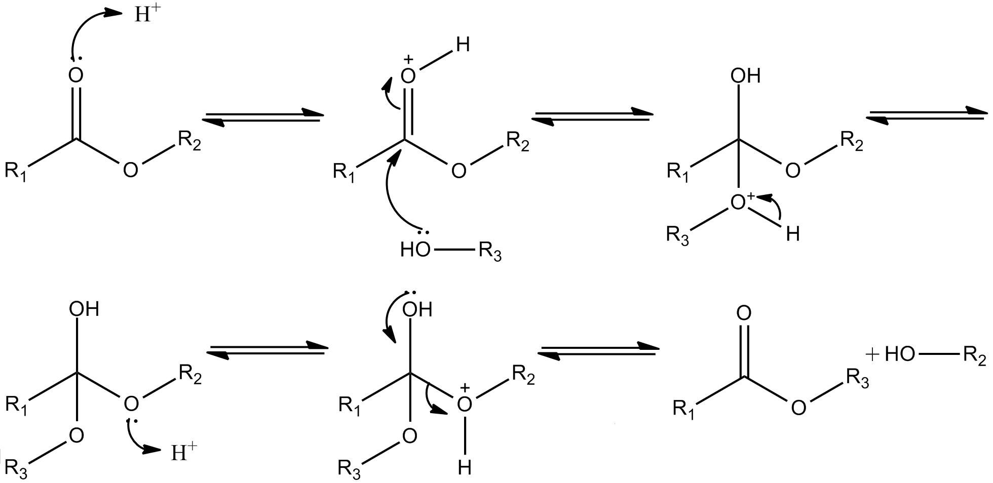 The mechanism of acid-catalysed transesterification reaction. Drawn with ChemBioDraw Ultra 12.0.2